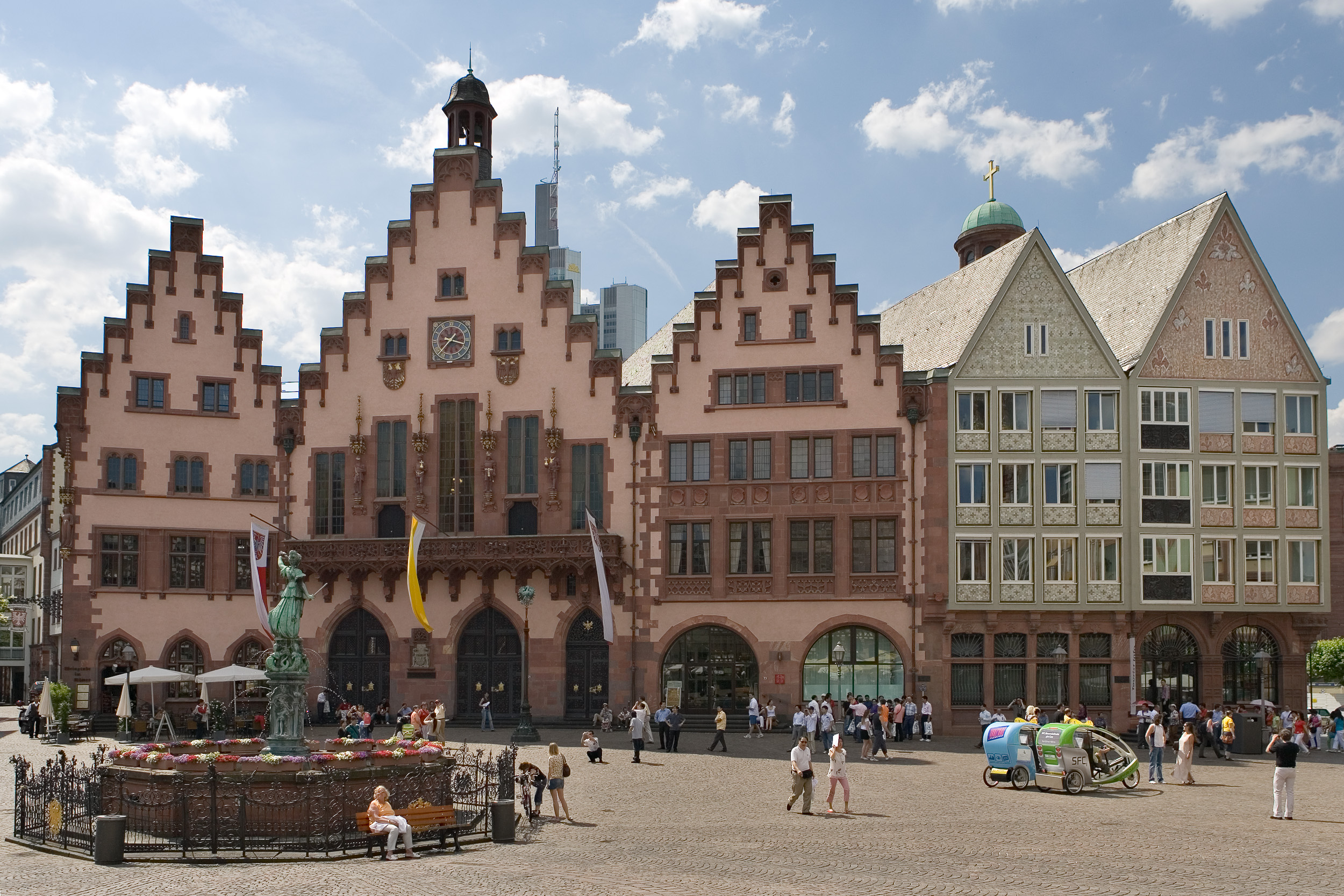 Western side of the Roemerberg in Frankfurt on the Main, from left to right: House Alt-Limpurg, House zum Roemer, House Loewenstein, House Frauenstein and Salt House